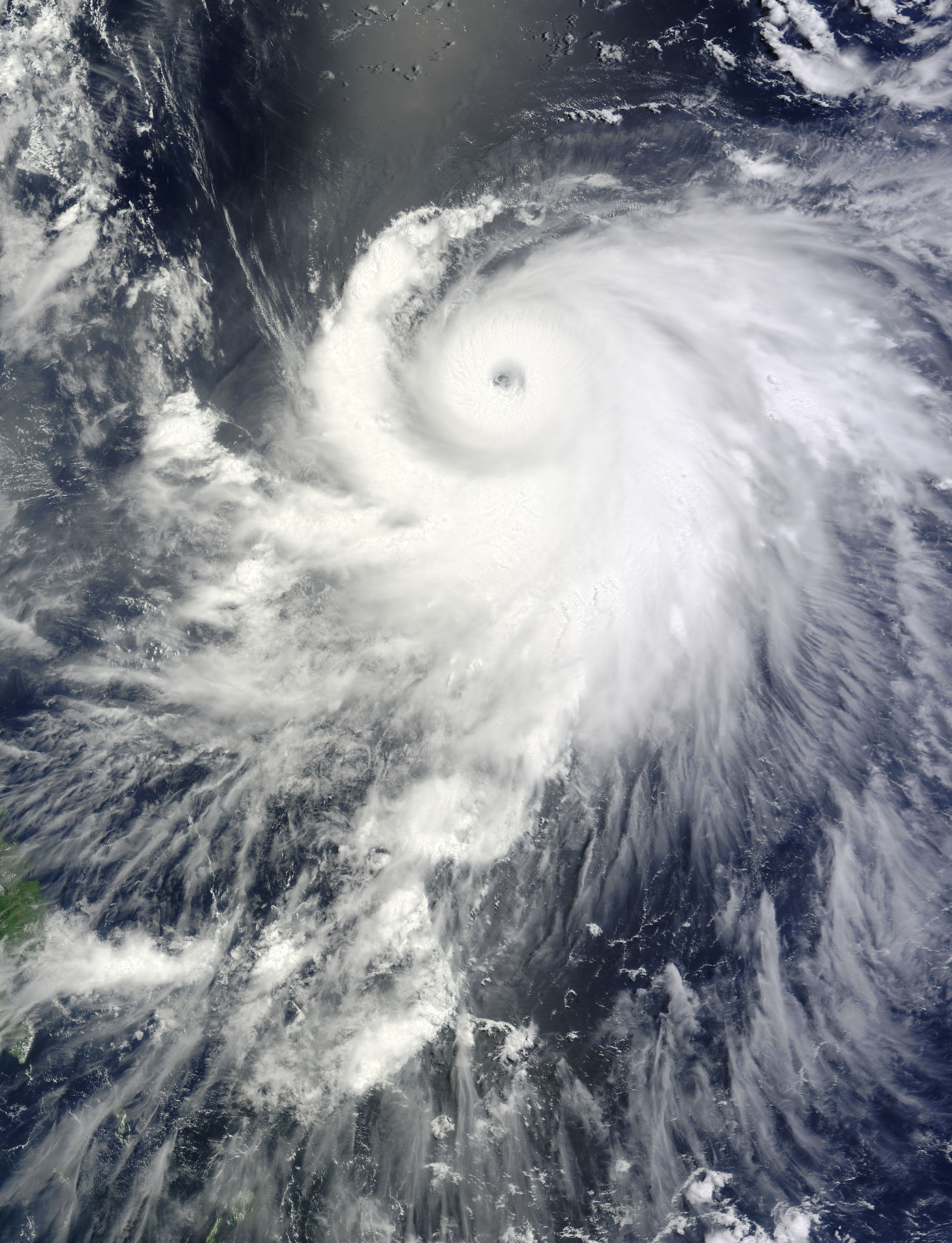 Typhoon Halong (11W) in the western Pacific Ocean